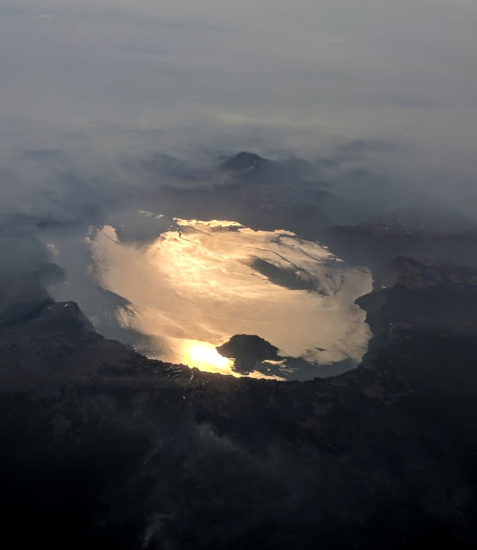 Crater Lake reflecting sun and clouds